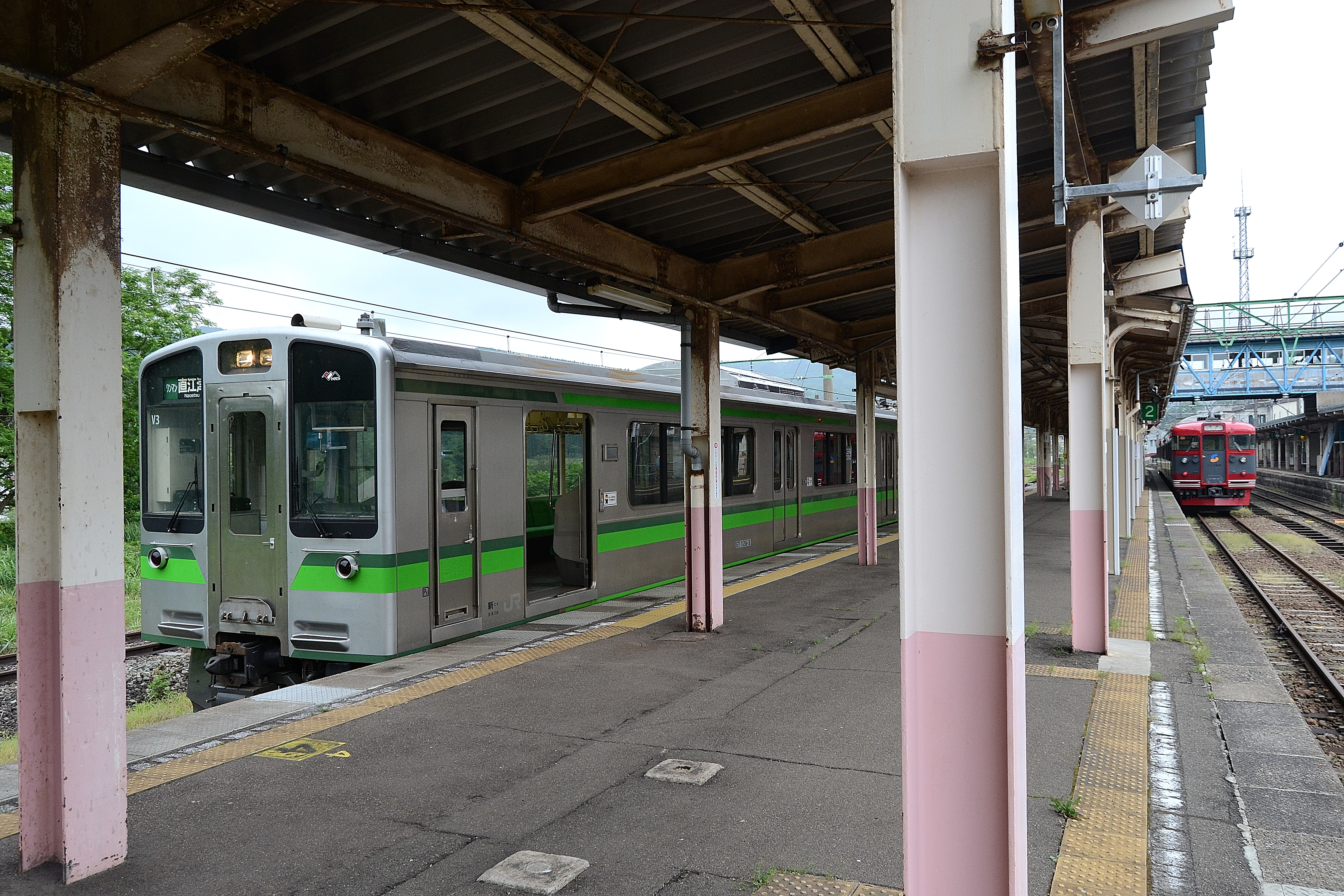 The platforms at Myōkō-Kōgen Station, with an Echigo Tokimeki Railway ET127 series EMU at platform 3 on the left, and a Shinano Railway 115 series EMU at platform 2 on the right